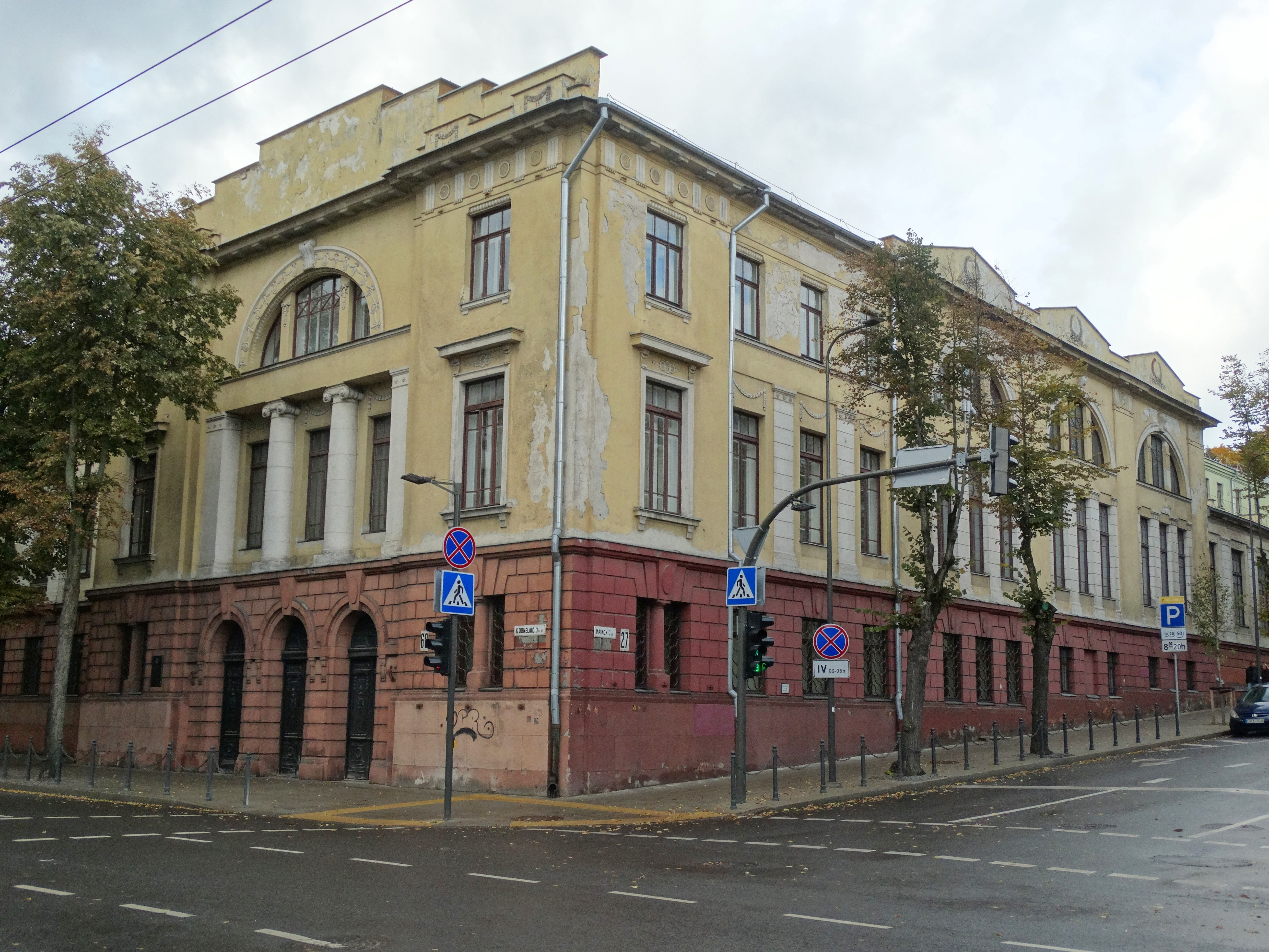 Maironio Street 27, Kaunas, Lithuania